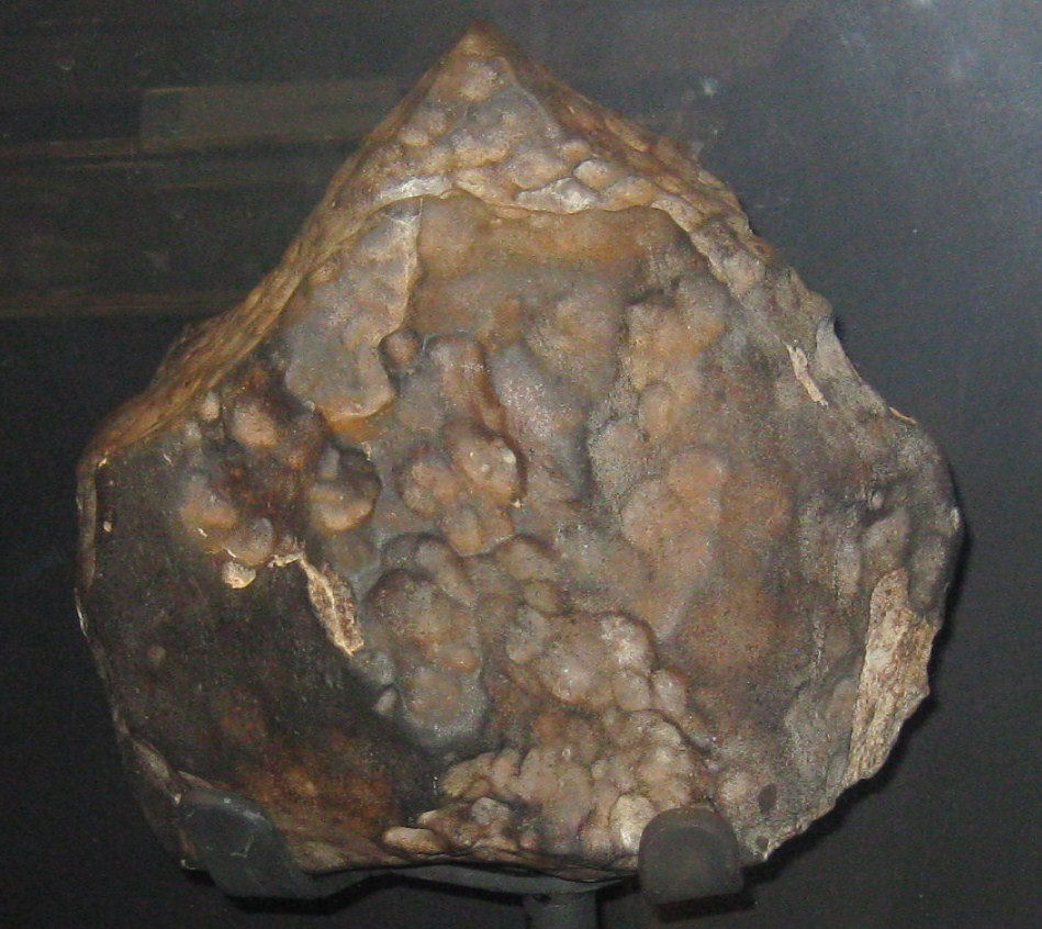 Ordinary chondrite meteorite found in Queensland, Australia, 1879. On display in the Natural History Museum, London